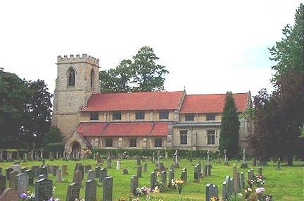 St Andrew's parish church, Bishopthorpe, North Yorkshire, seen from the south